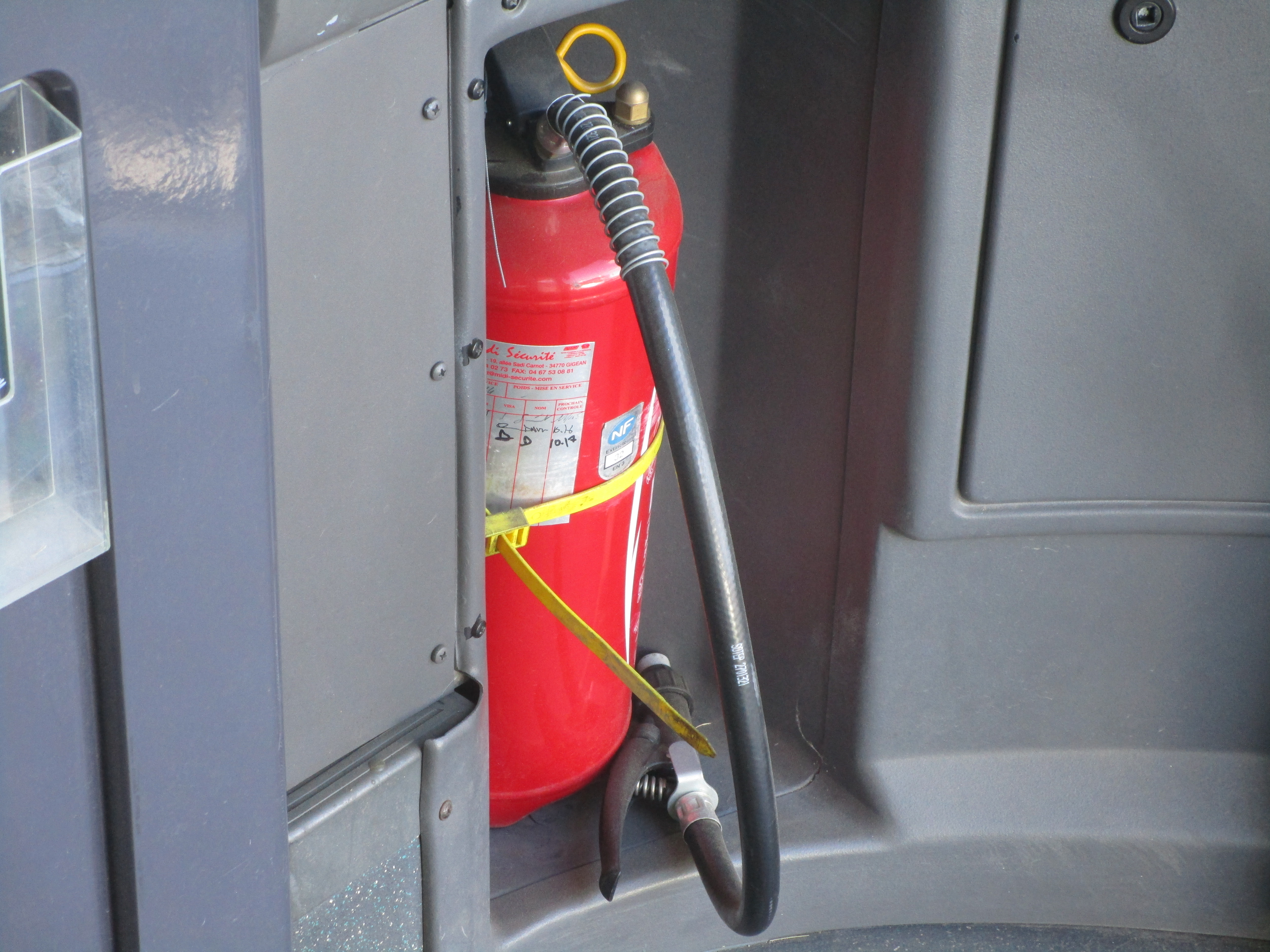 A fire extinguisher in the Volvo 7000 of Cap’Bus.